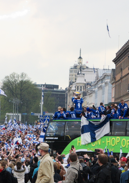 Captain Mikko Koivu holds the trophy as the Finnish team, winners of the 2011 Ice Hockey World Championships, arrive at Market Square in Helsinki to greet about 100,000 fans.